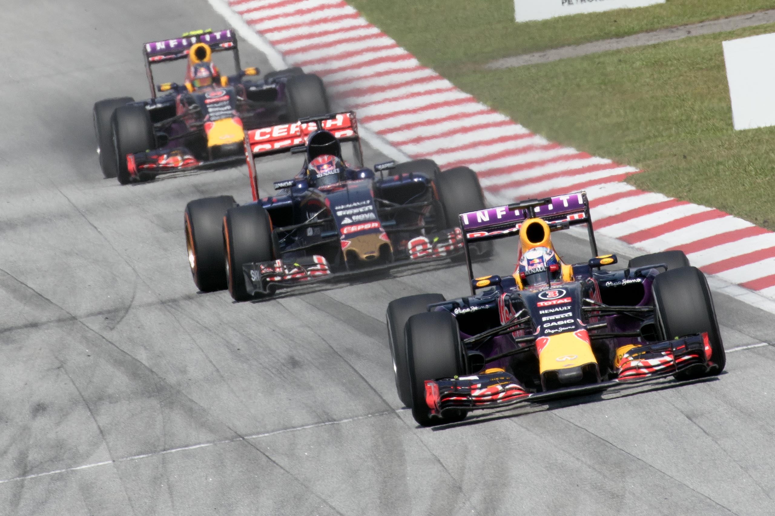 Formula One 2015 Rd.2 Malaysian GP: Daniel Ricciardo (Red Bull), Max Verstappen (Toro Rosso), and Daniil Kvyat (Red Bull)